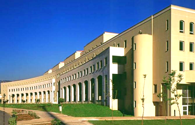 Main facade and entrance in University Campus Hadath, near Beyrouth (conception & design) 1994 (built in 2004)